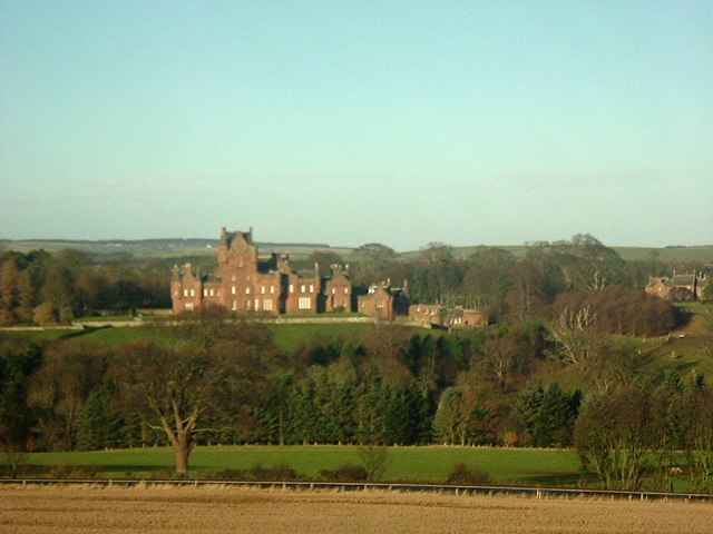 Ground of Ayton Castle, nr Ayton